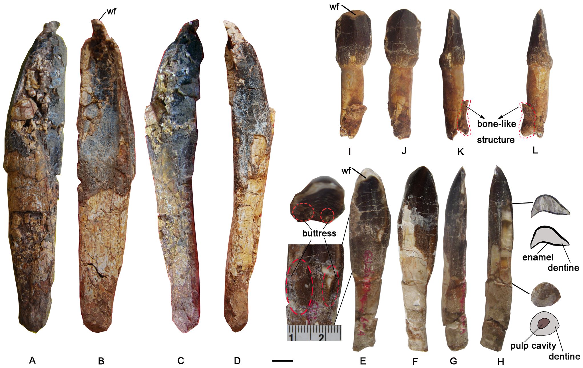 Teeth preserved in the holotype specimen of Yongjinglong datangi (GSGM ZH(08)-04). Labial, lingual and two lateral views of Tooth A (A, B, C, and D), of Tooth B (E, F, G and H), with crown and root cross-sectional views, a close-up of photo for the buttresses and interpretive outline drawings (see E and H), and of Tooth C (I, J, K, and L); red dashed lines in K and L delineate show a bone-like structure adhered to the tooth (K and L). Scale bar equals 10 mm. Abbreviation: wf, wear facet.